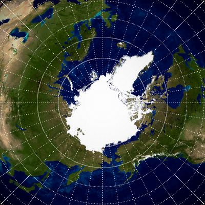 Xplanet image